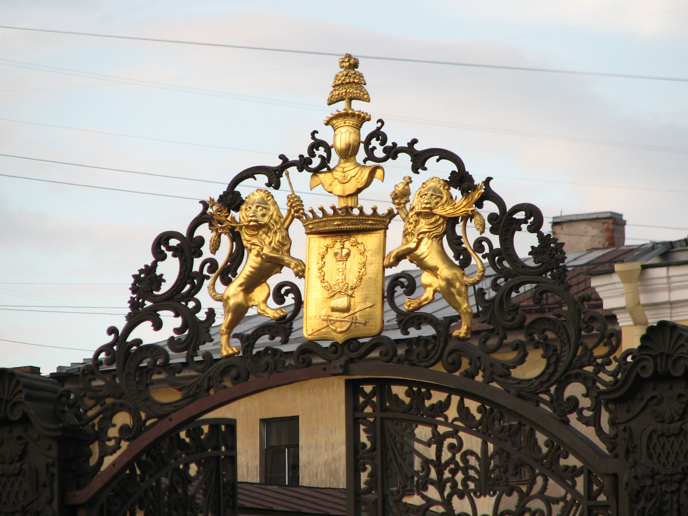 Saint Petersburg. Sheremetev palace (Fontanniy Home). The Sheremetev coat of arms over gates.